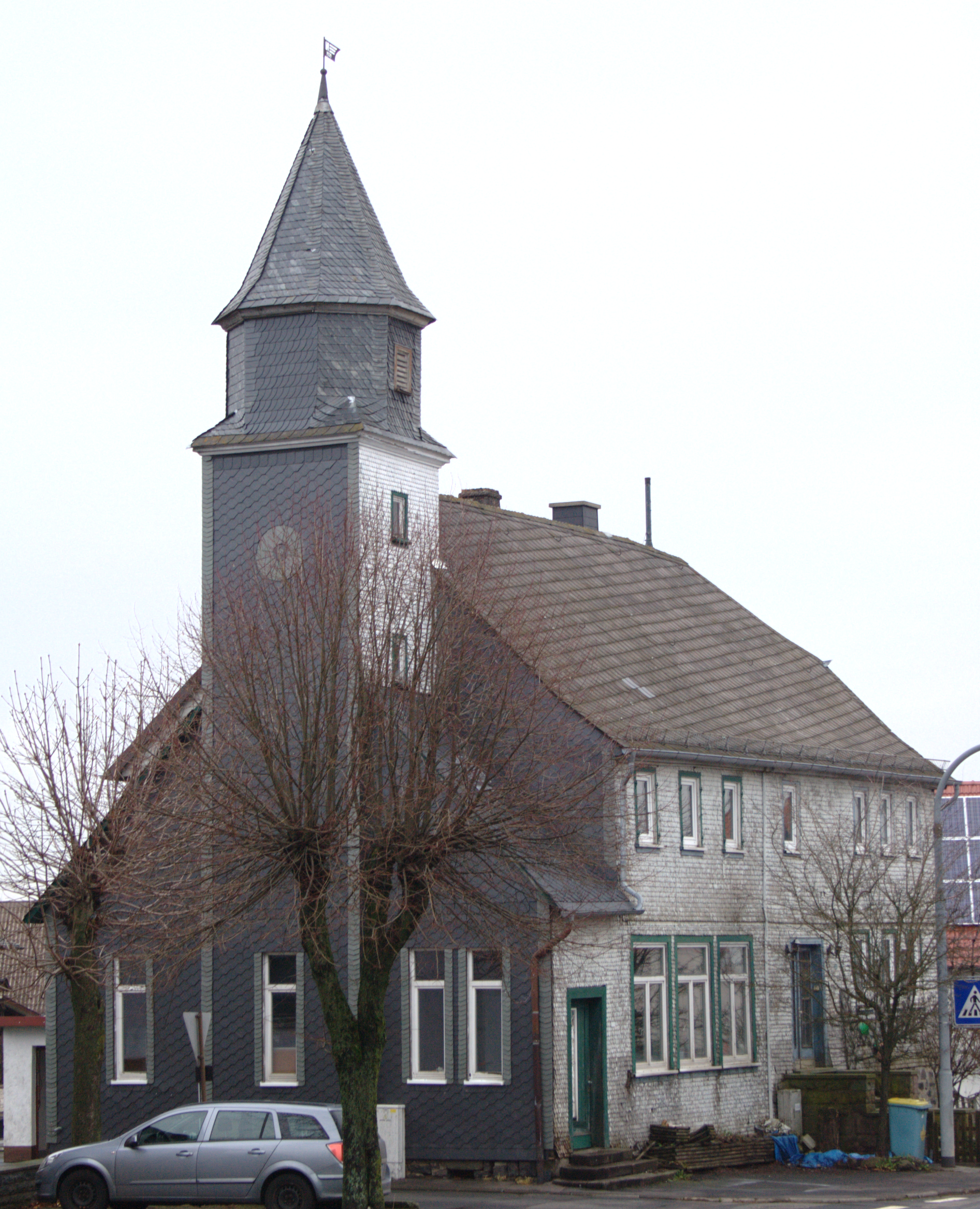 Building (former school) in Rebgeshain, Schottener Strasse 17, Ulrichstein, Hesse, Germany